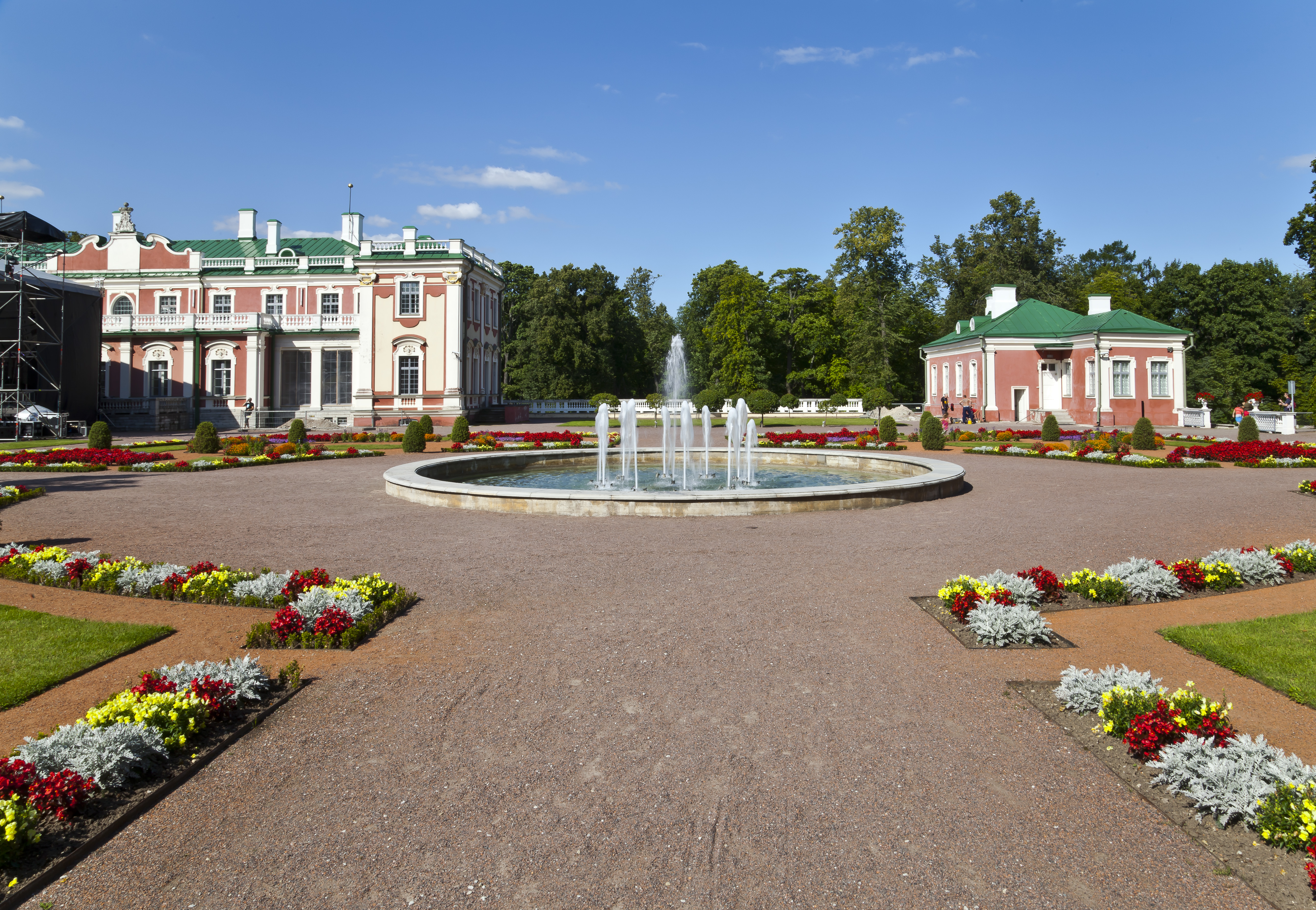 Palace of Kadriorg, Tallinn, Estonia